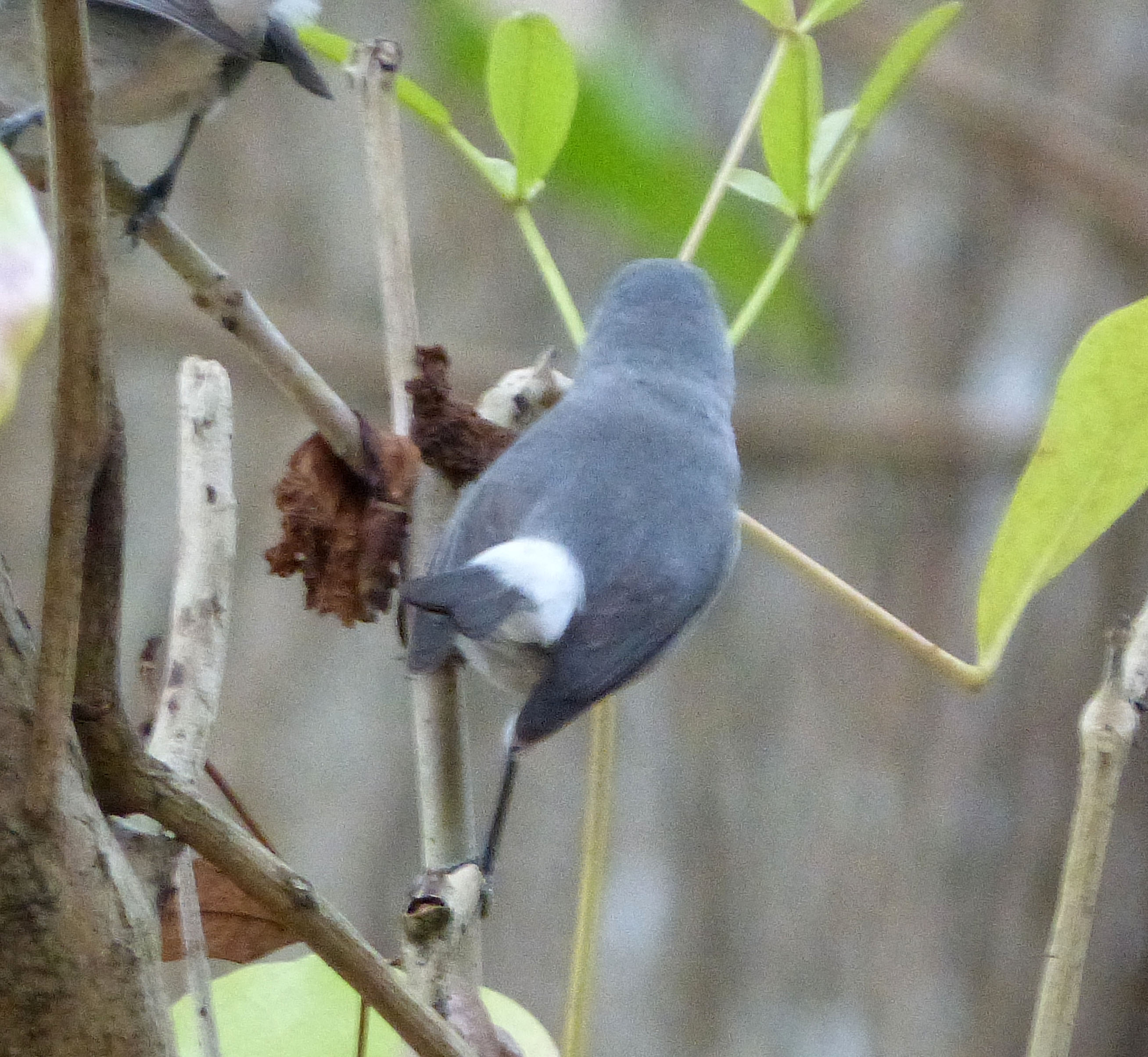 Mauritius Grey White-eye. Zosterops mauritianus